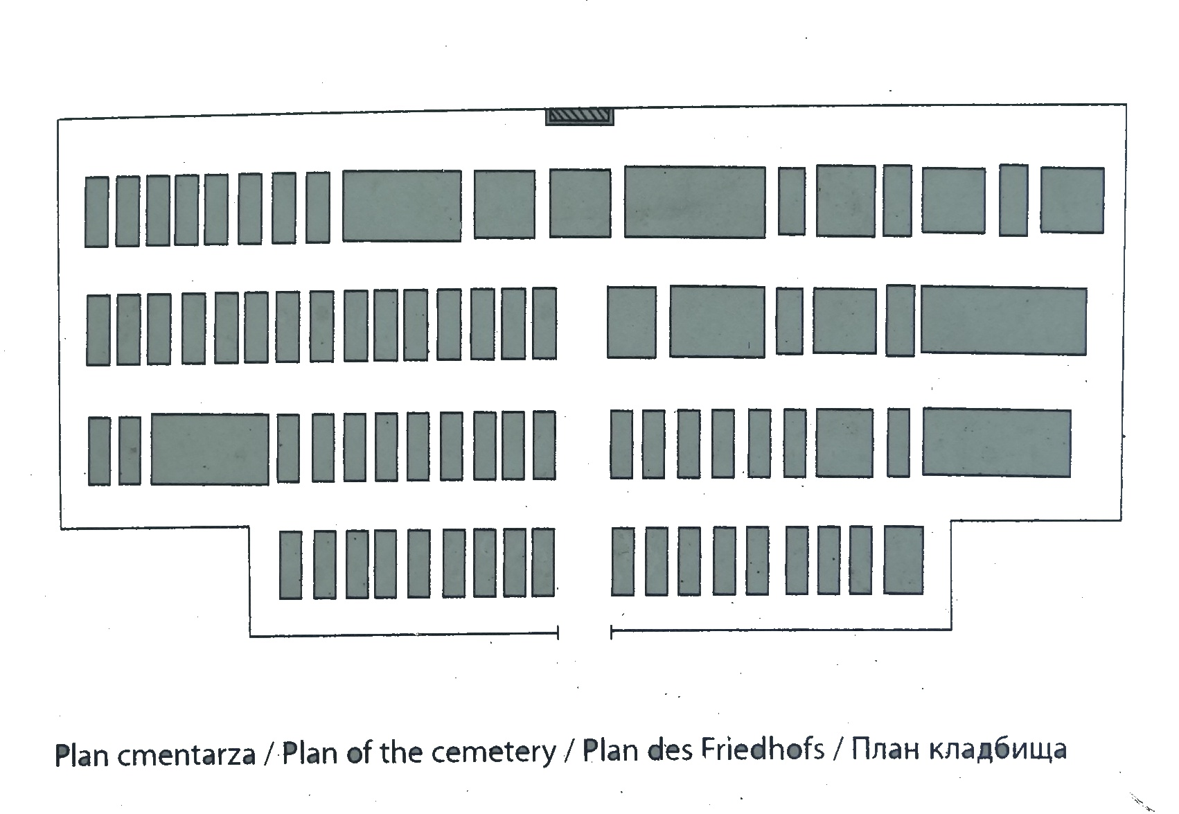 World War I Cemetery nr 160 in Tuchów